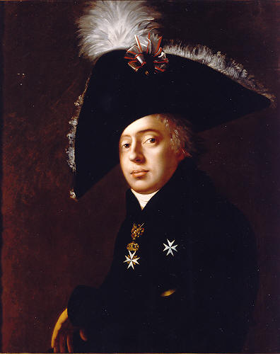 Portrait of Count Nicholas N. Demidoff (1773-1828) Николай Никитич Демидов (1798-1840). Из собрания А. Тиссо